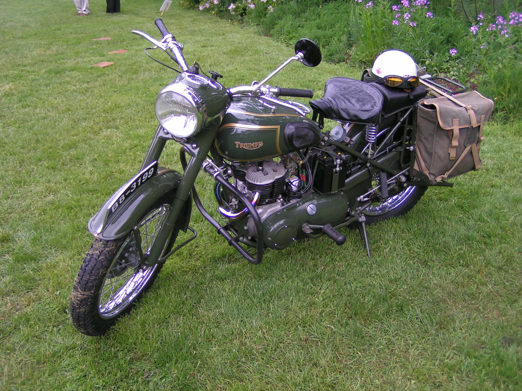 An image of a Triumph motorcycle @ the 2007 Vancouver All British Field Meet.